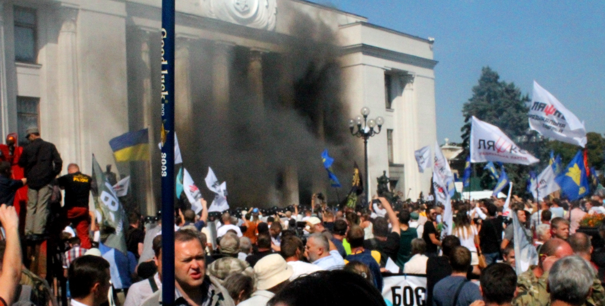 Protests against changes to Constitution, August, 31, 2015